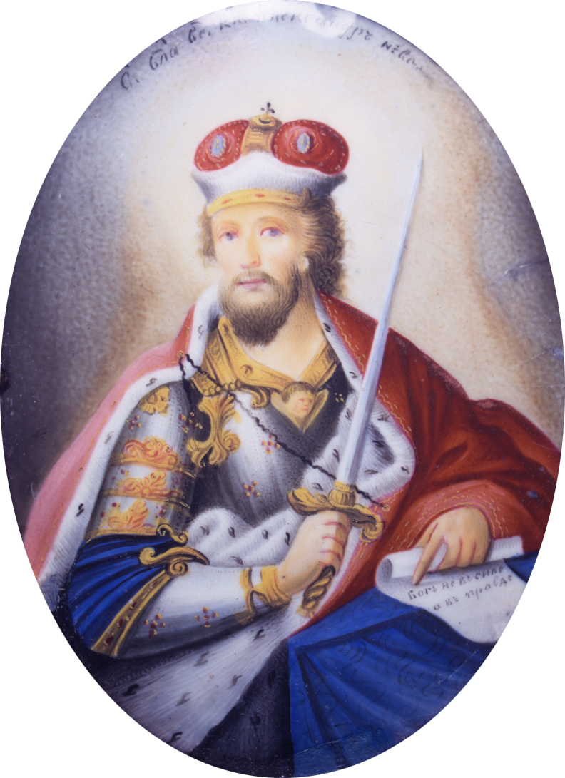 Medallion of the Grand Prince St Alexander Nevsky enamel painting 12.4 x 9.1 cm late 19th, early 20th century